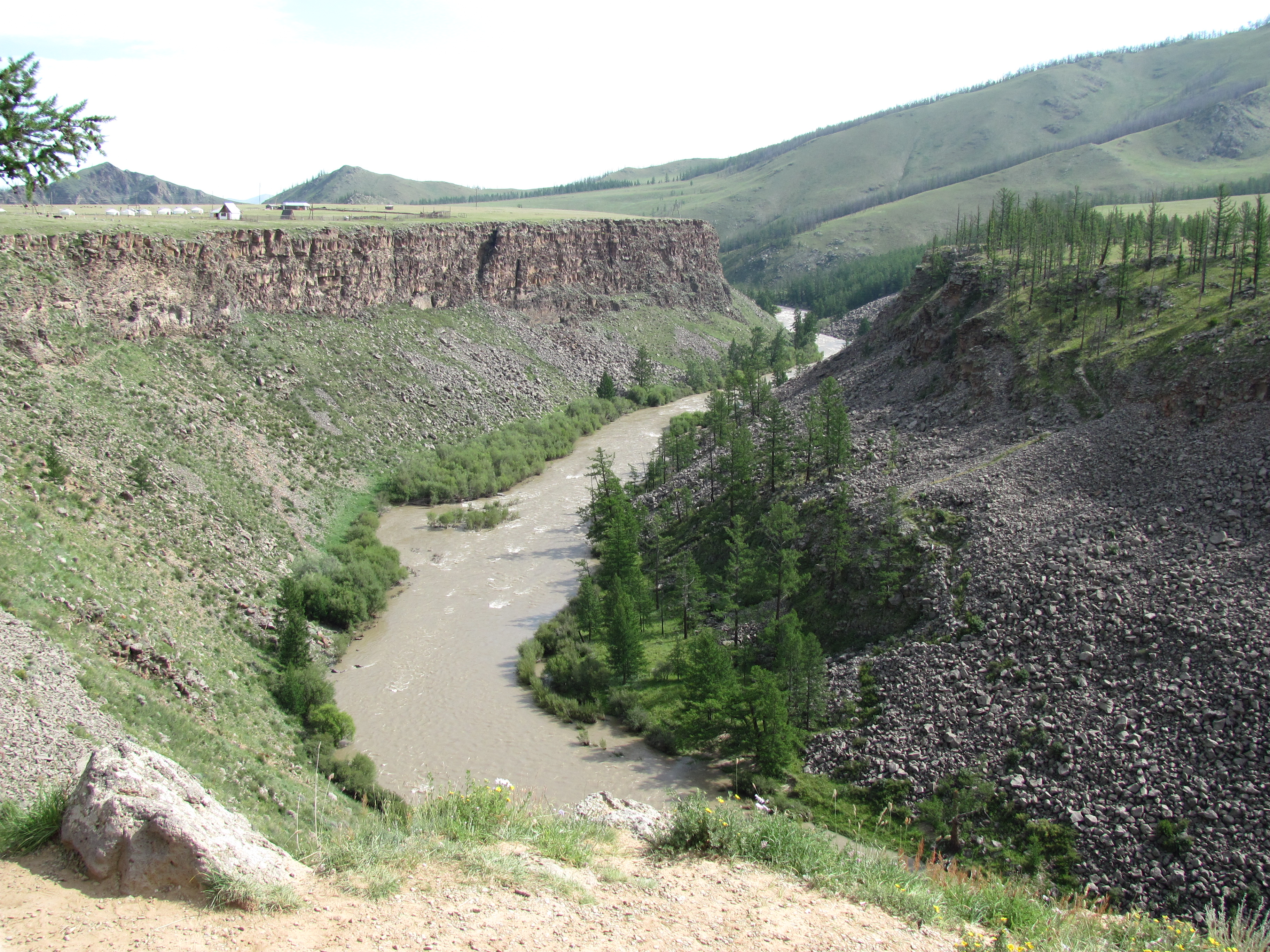 Chuluut River near Tariat, Archangai Aimag, Mongolia